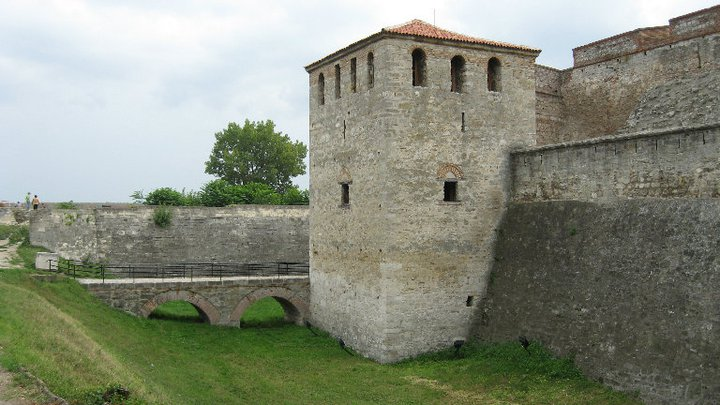 Baba Vida Fortress, Vidin, Bulgaria